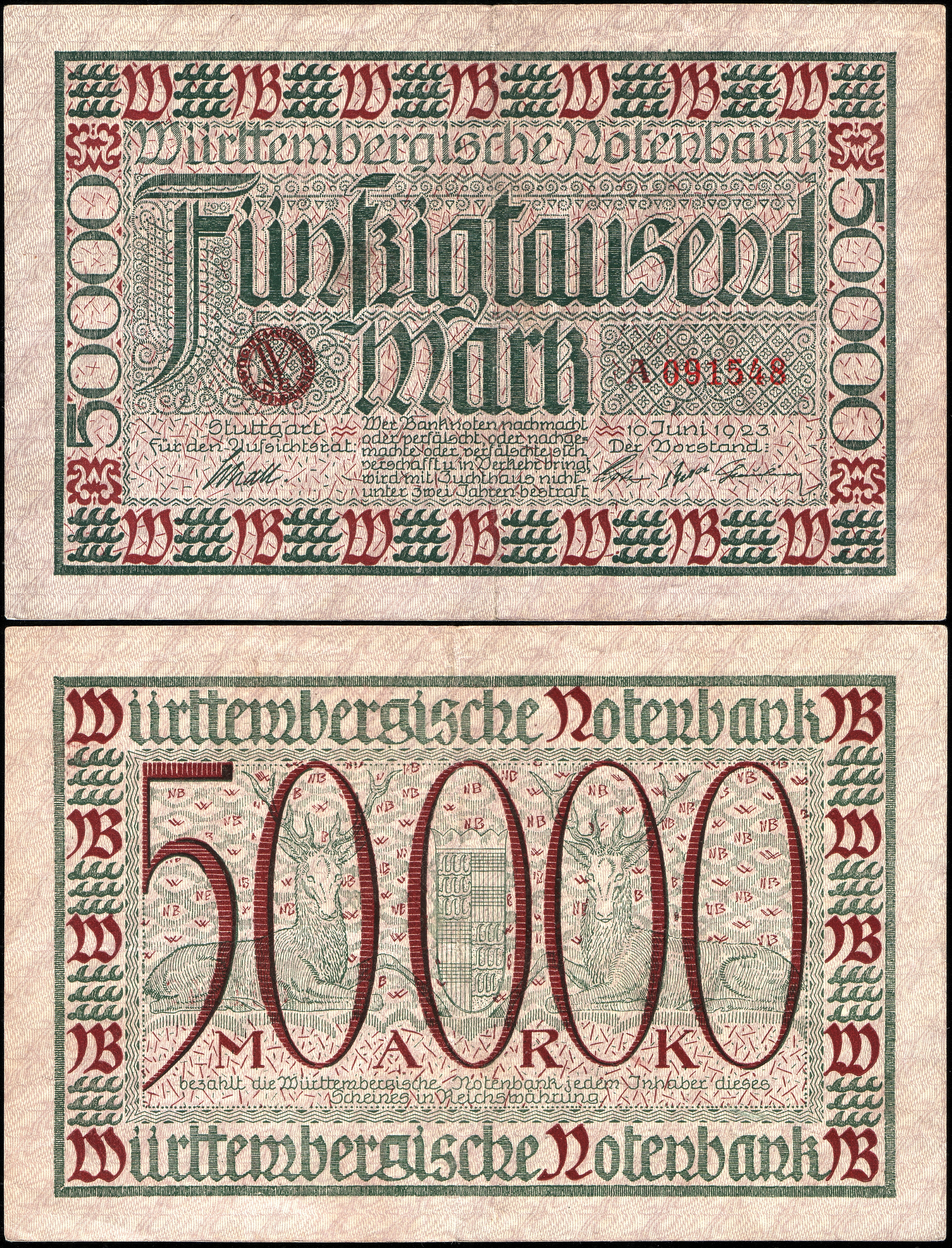 "Notgeld" banknote: 50,000 Mark, Württembergische Notenbank (1923), size: 105 mm x 160 mm.